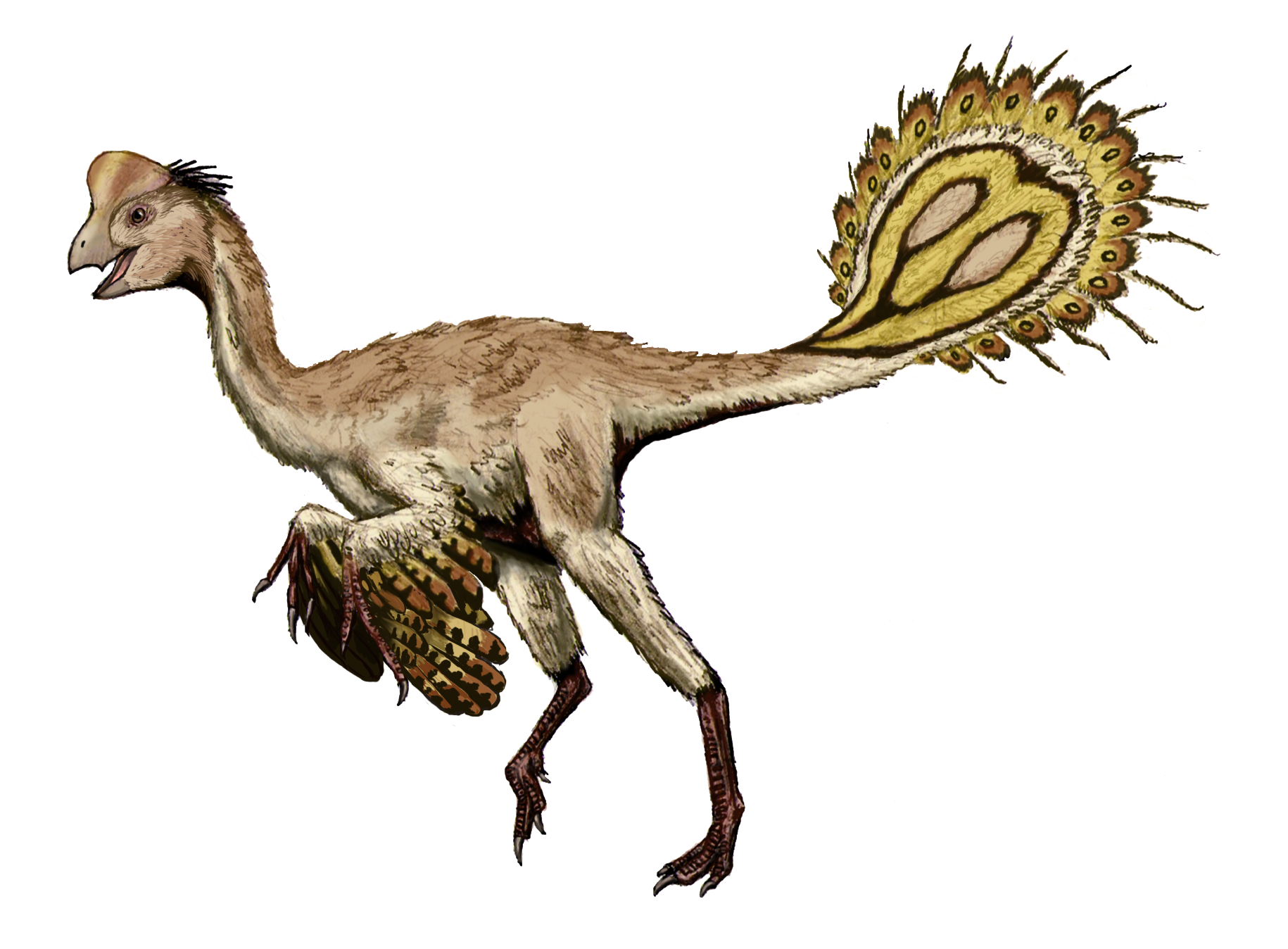 Drawn by Smokeybjb Based on skeletal reconstruction by Scott Hartman found here.